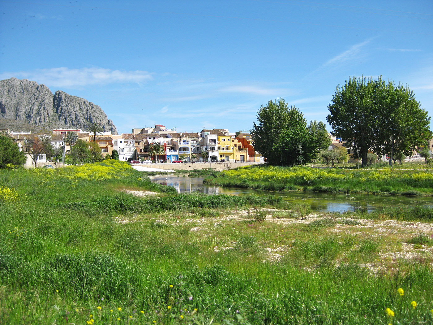 View of Beniarbeig and the river Girona, in the Valencian Country, Spain. Vista de Beniarbeig, el riu Girona, i la serra de la Segària, Marina Alta, País Valencià.